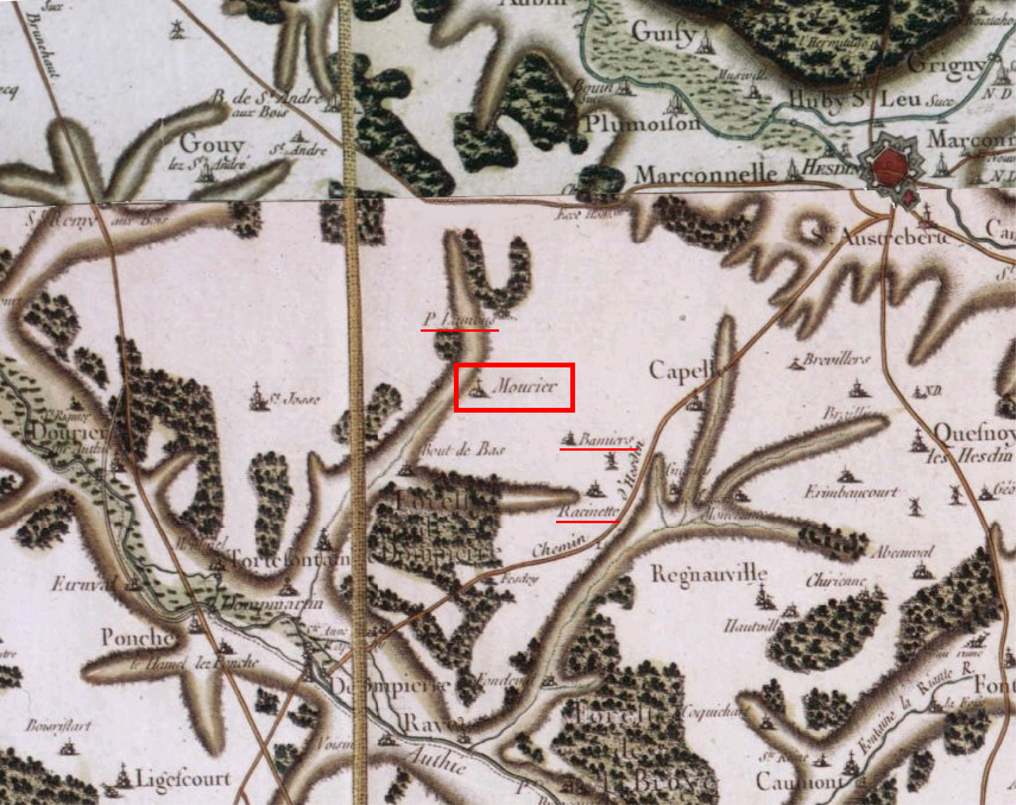 Mouriez neighbourhood, portion extracted from Cassini map Abeville-Arras published in 1757.